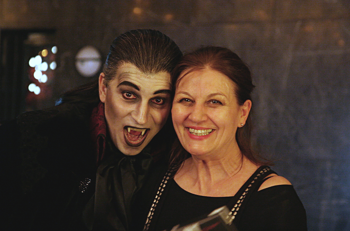 Gábor Bot (von Krolock) and Edit Simon (the producer of the musical) at Magyar Színház in Budapest, 20.06.2009.